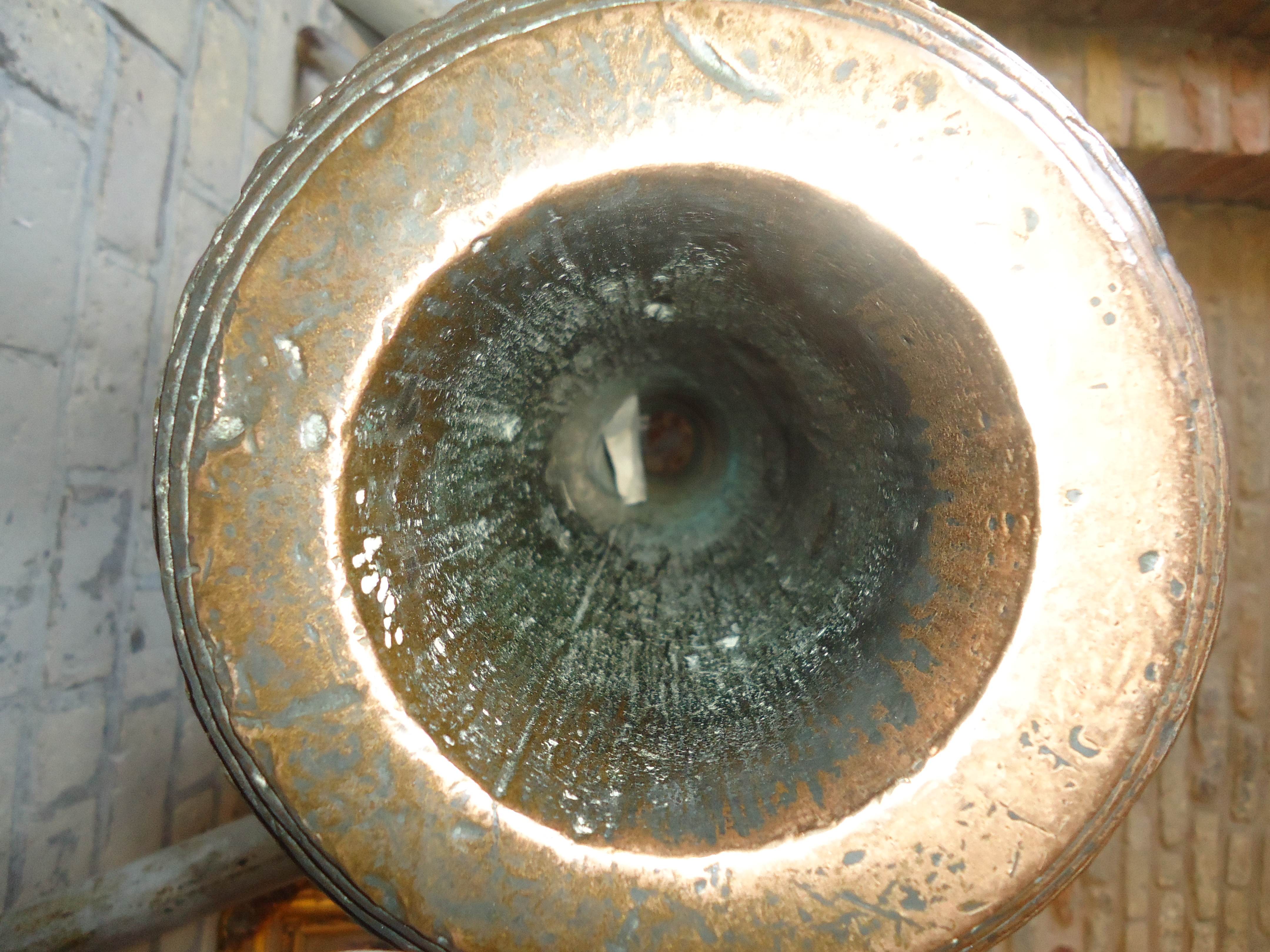 Cannon in falakalaflak castle in iran